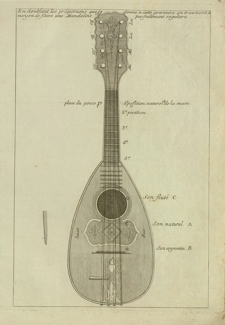 Page from Analytical method for mastering the violin or the mandolin by Gabriele Leone, published in Paris, 1768, showing parts of a mandolin. Leone was an early teacher of mandolin technique in London and Paris.